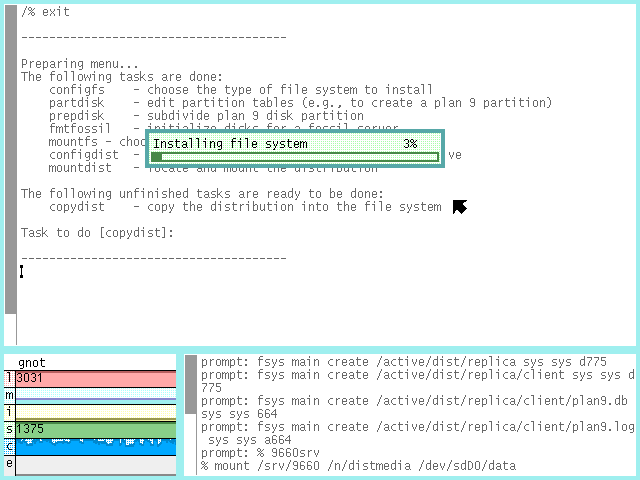 Installation of Plan 9 from Bell Labs, GUI mode, 640x480x8 colour mode.